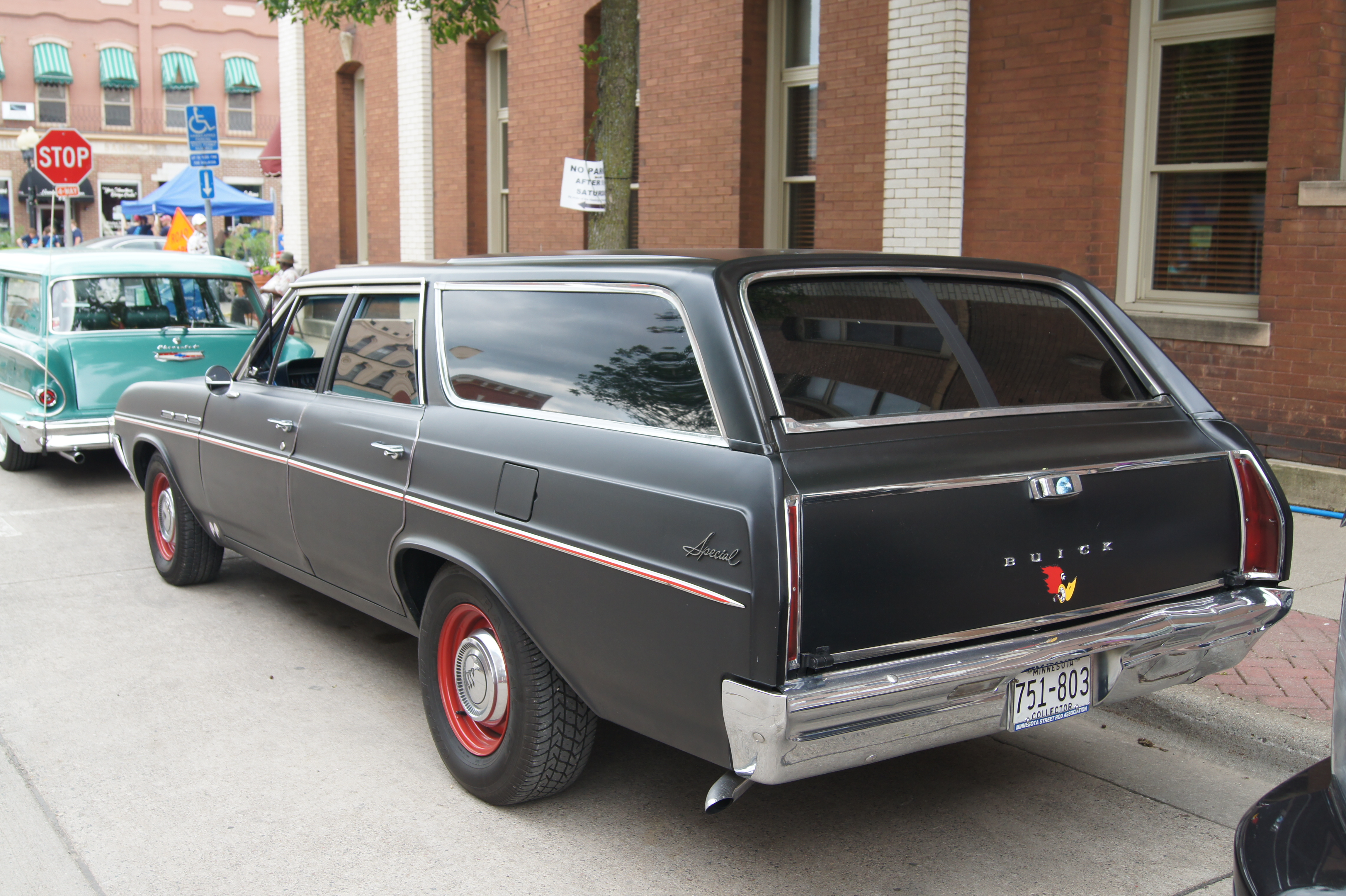 9th Annual Saturday Night Cruise-In June 28,2014 Hastings, Minnesota Participants said attendance was down quite a bit due to forecasts of rain and Thunderstorms. The meteorologists were right. An hour into the event, rain began to fall. For More of My Car Pictures click on the link below